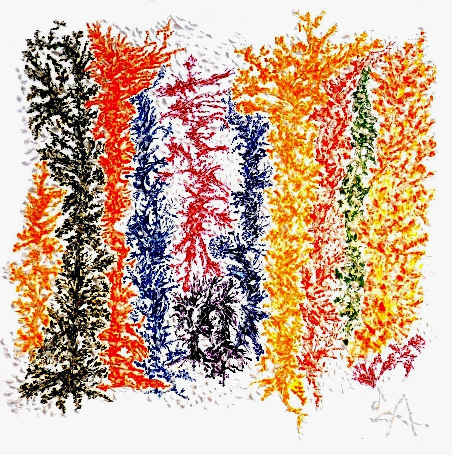 Painting Cantus Firmus from the collection Australia by Joanna Angelett.